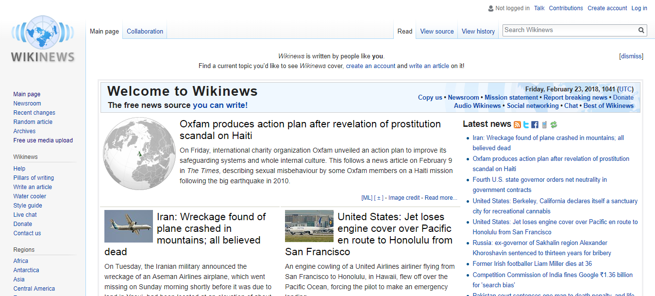 English Wikinews Main Page screenshot with Facebook promotion